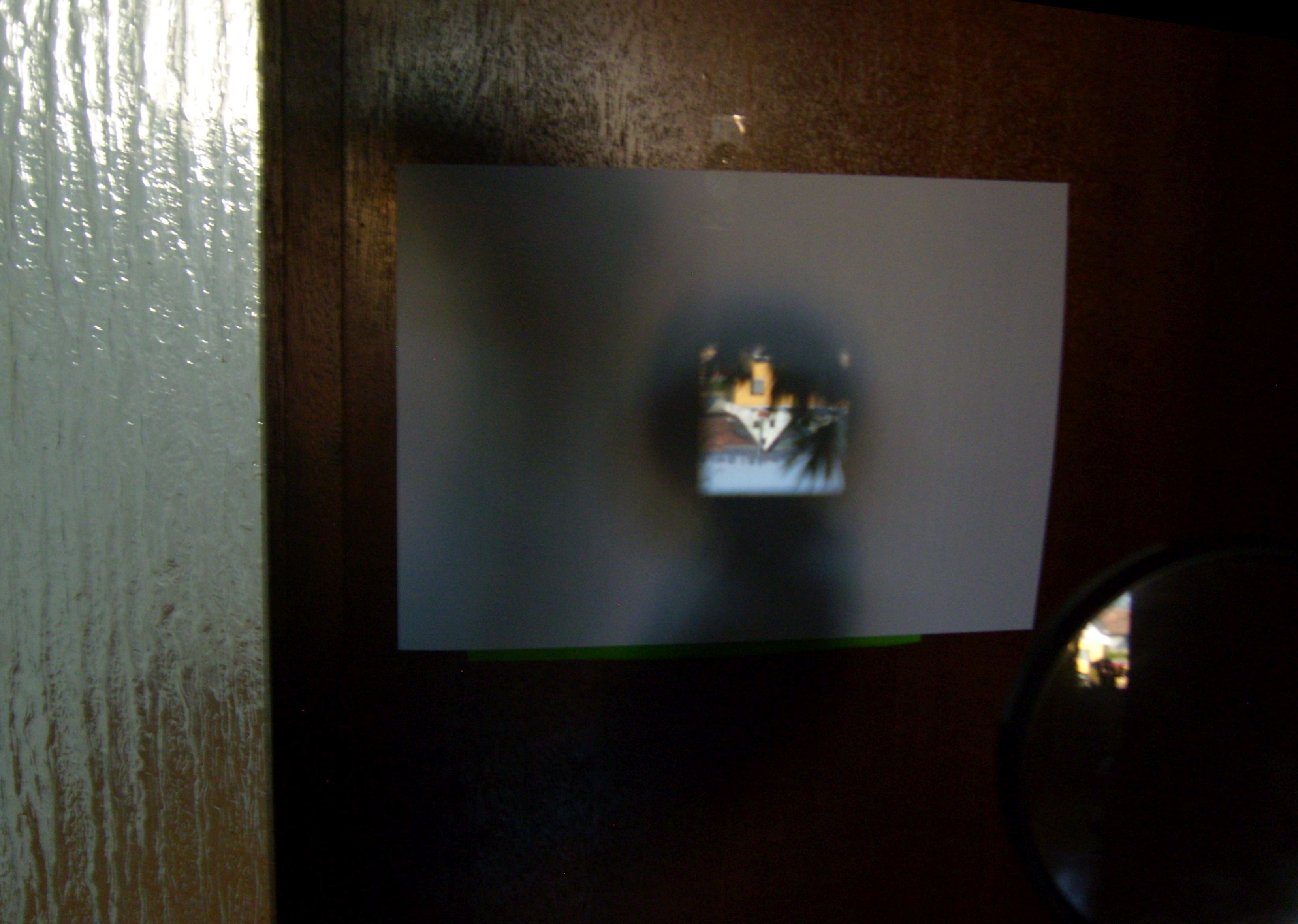 The image of a window under a Magnifying glass; The buildfings, which are at a distance of about 30 yards/metres, appear sharp, if the distance of the magnifyer from the wall is the focus length. Becausde of the wide diameter of the magnifyer image appears bright in spite of Contre-jour. At the right below we can see the mirror image of the window in the magnifyer.